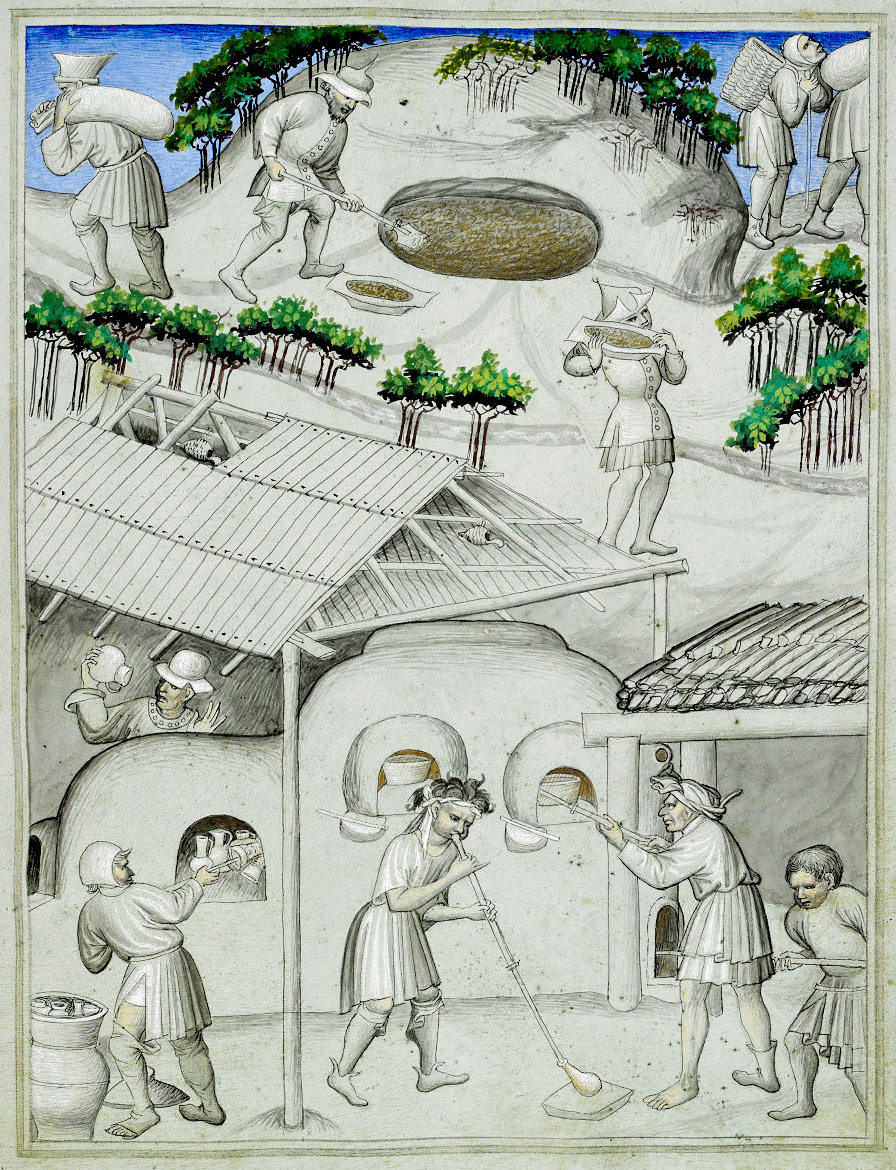 Miniature of workers, above, mining the pit of Memnon for sand for glassmaking and, below, a glassblower and other craftsmen in a glassmaking workshop.